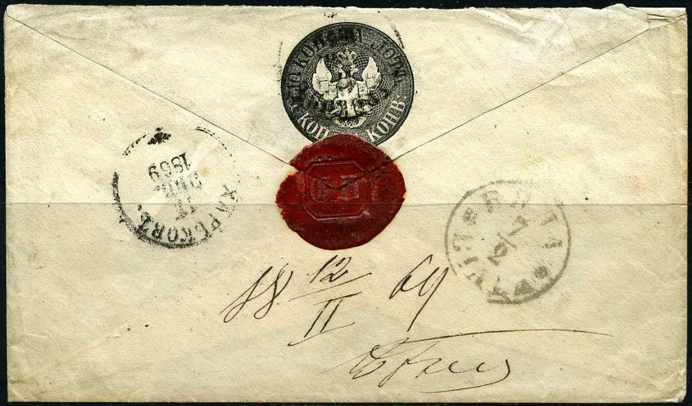 Stamped envelope of the Russian Empire, sent from Kharkov to Biała (Tsardom of Poland), 1869.